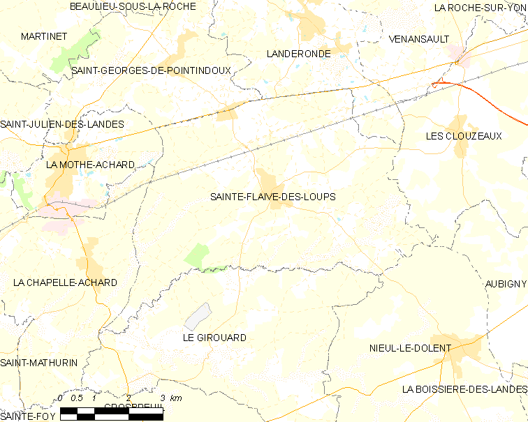 Map of French municipality Sainte-Flaive-des-Loups